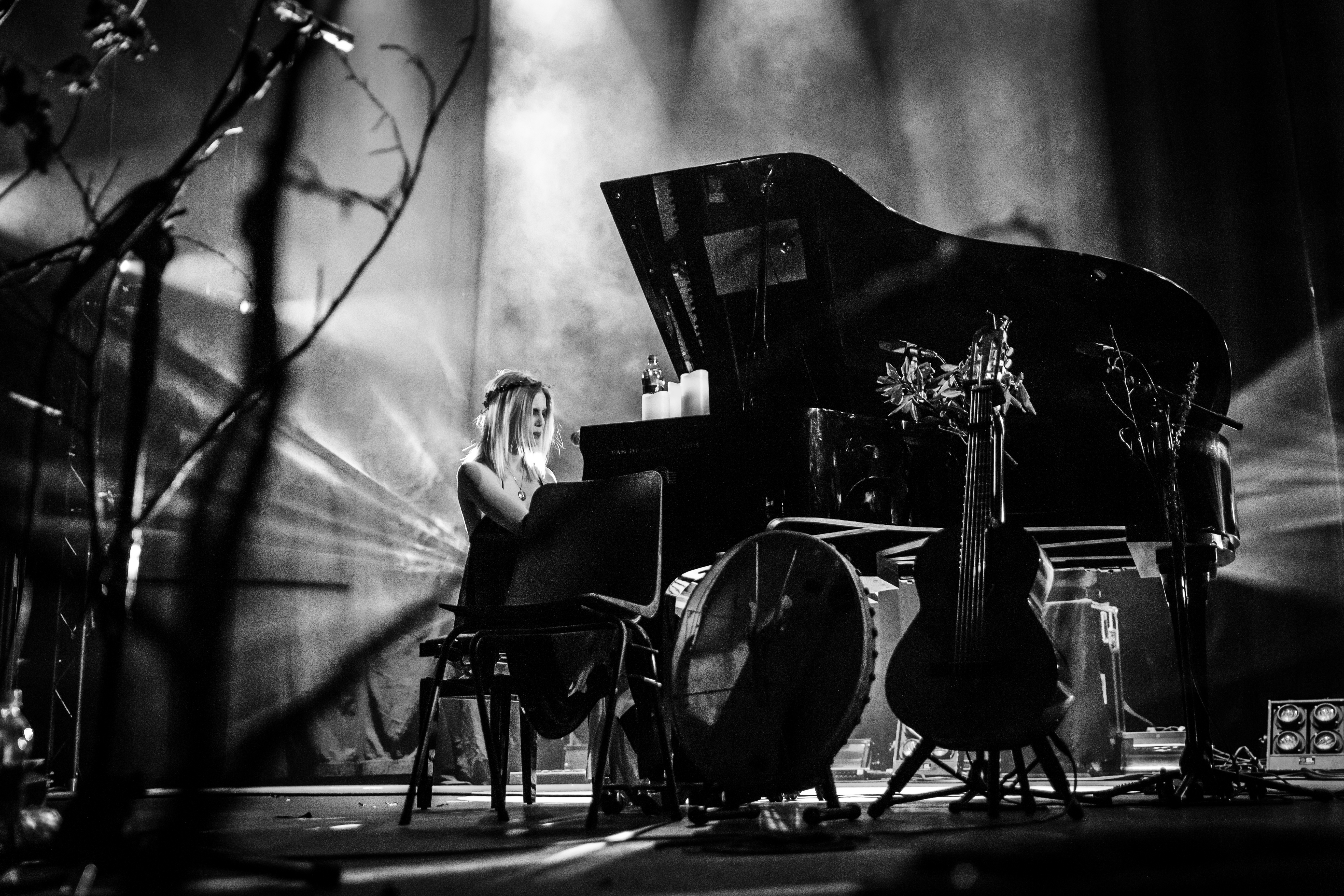 Myrkur performing live at Roadburn Festivla 2019